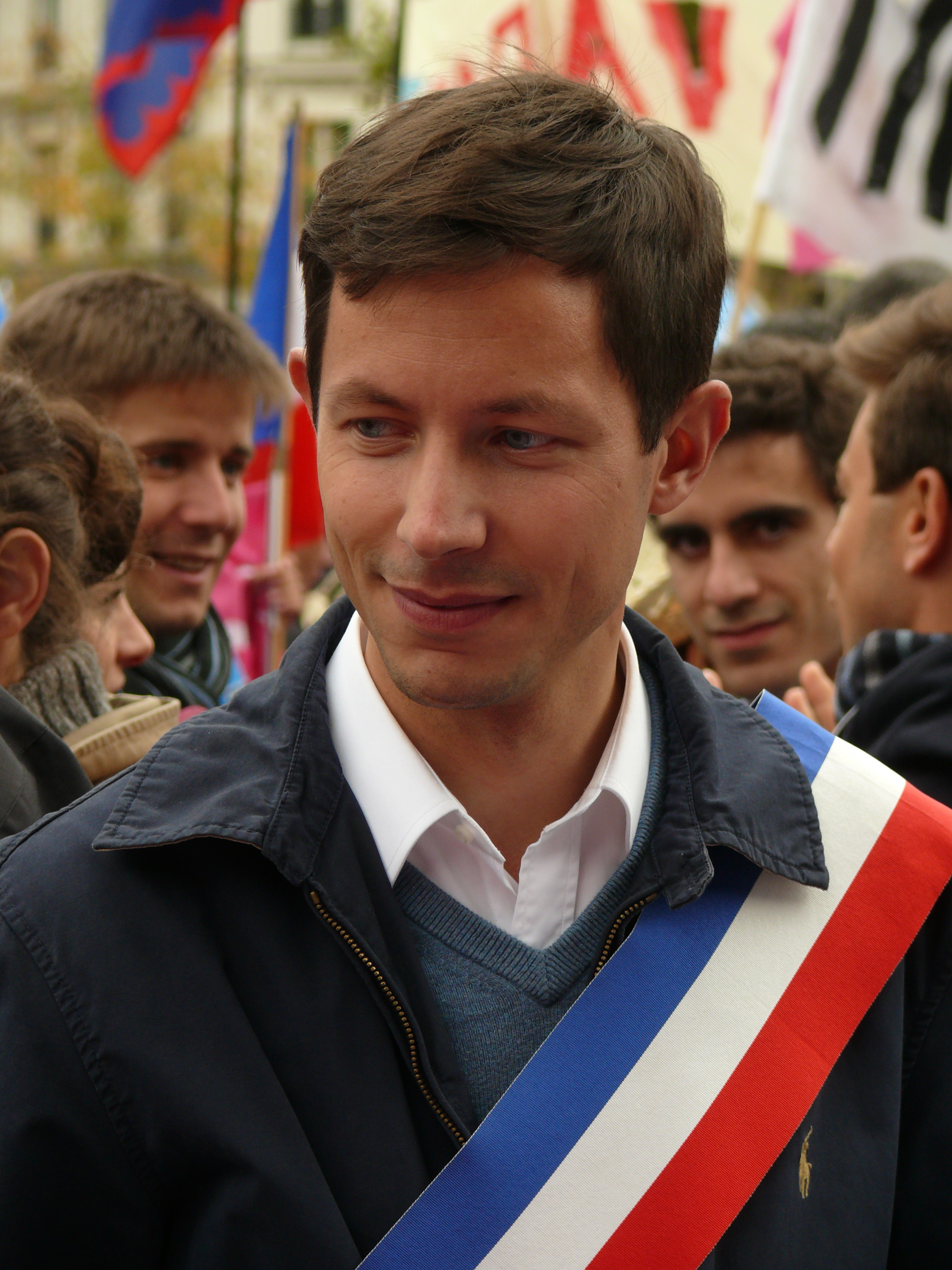 Demonstration "La Manif pour Tous" in Paris on October 5th 2014 (France).